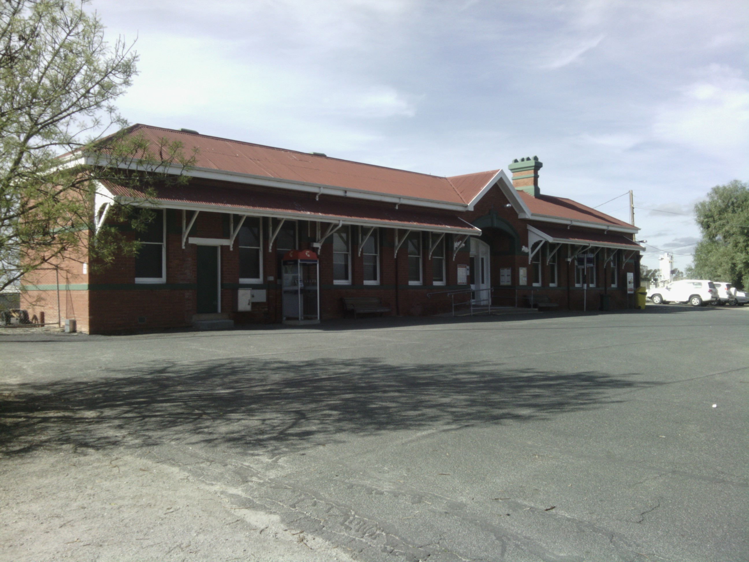 Kerang railway station building